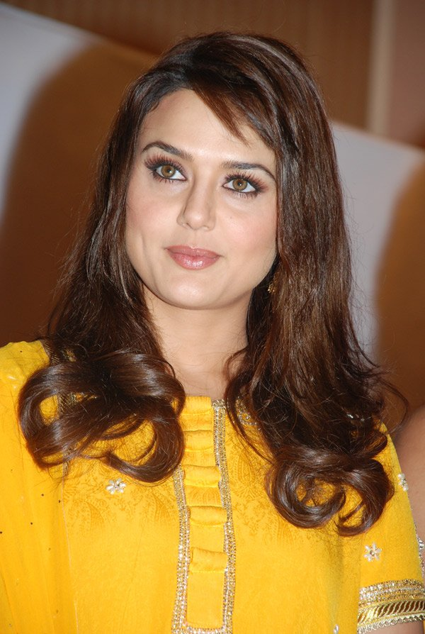 Preity Zinta felicitated at Giants Day Awards